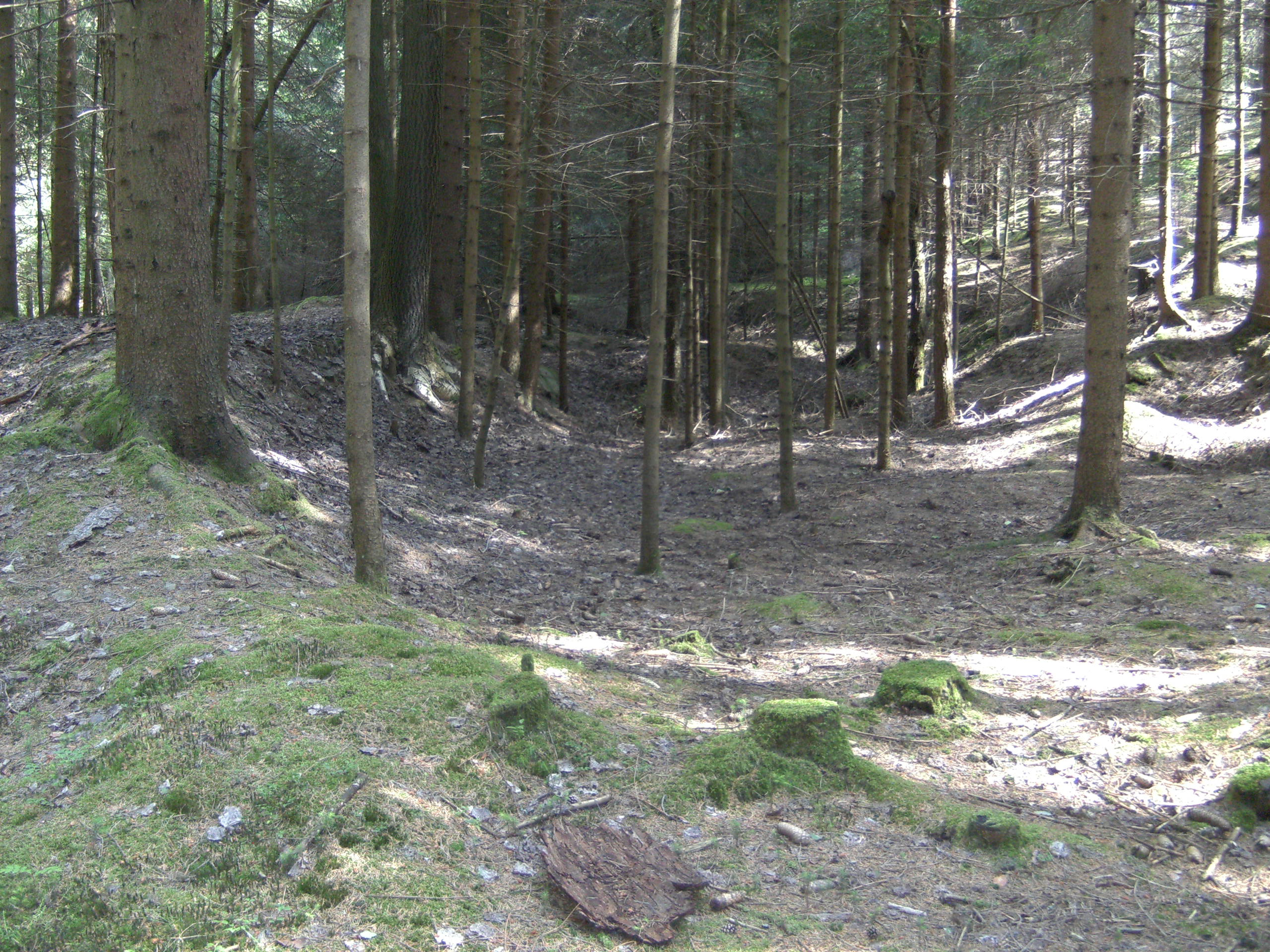 Langenbach (abandoned village)